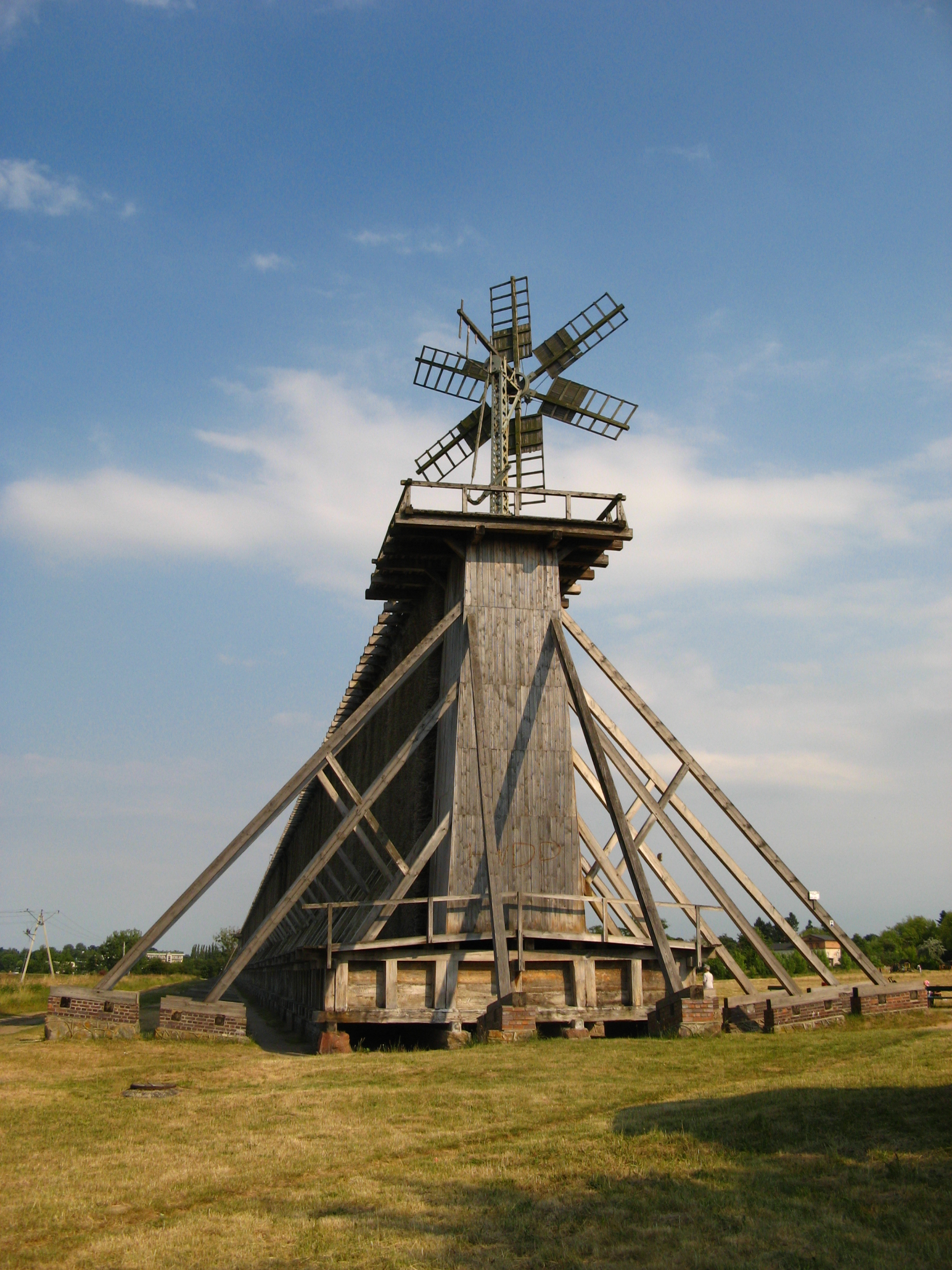 Graduate tower in Ciechocinek, Poland